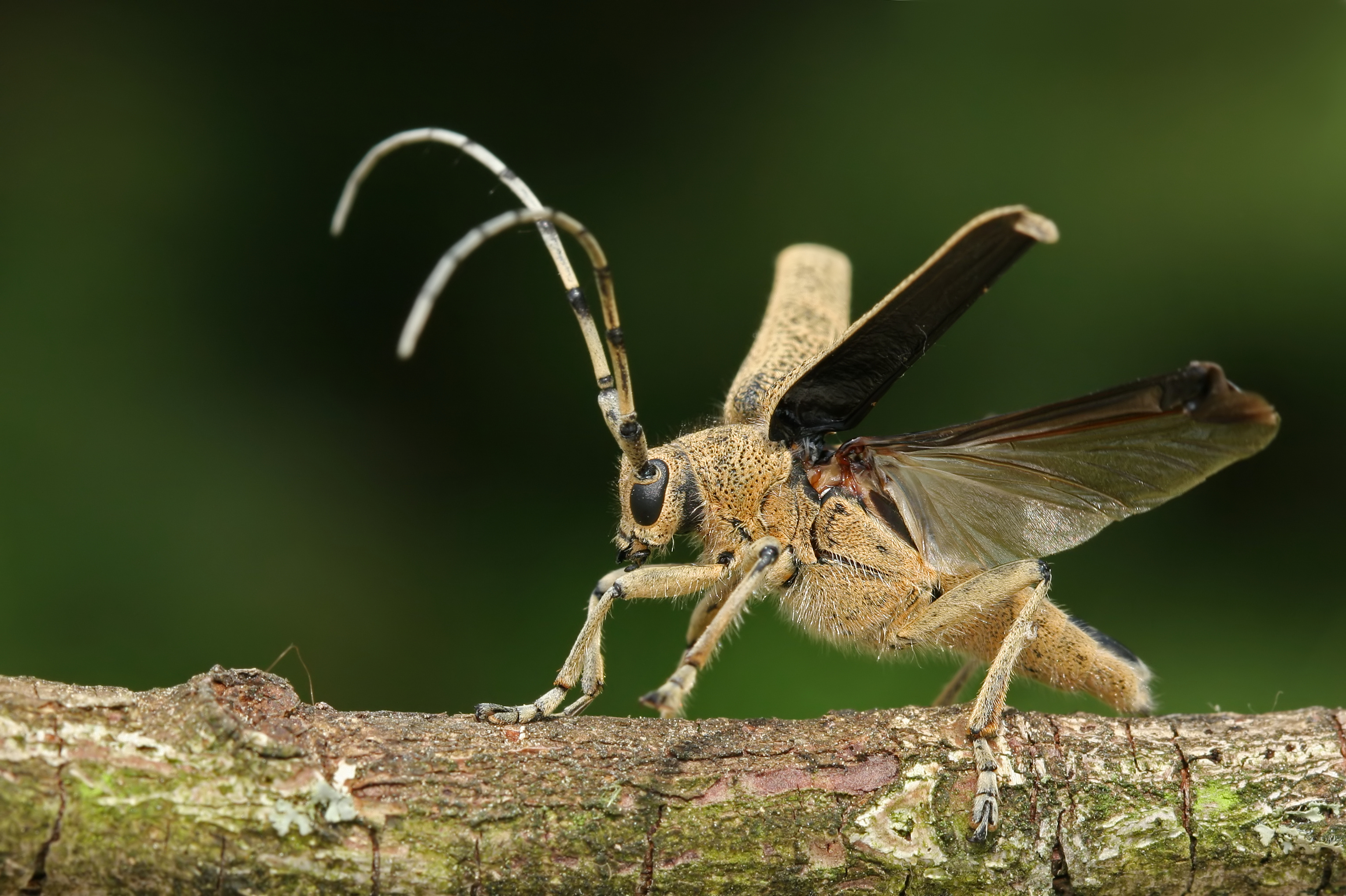 Large poplar longhorned beetle